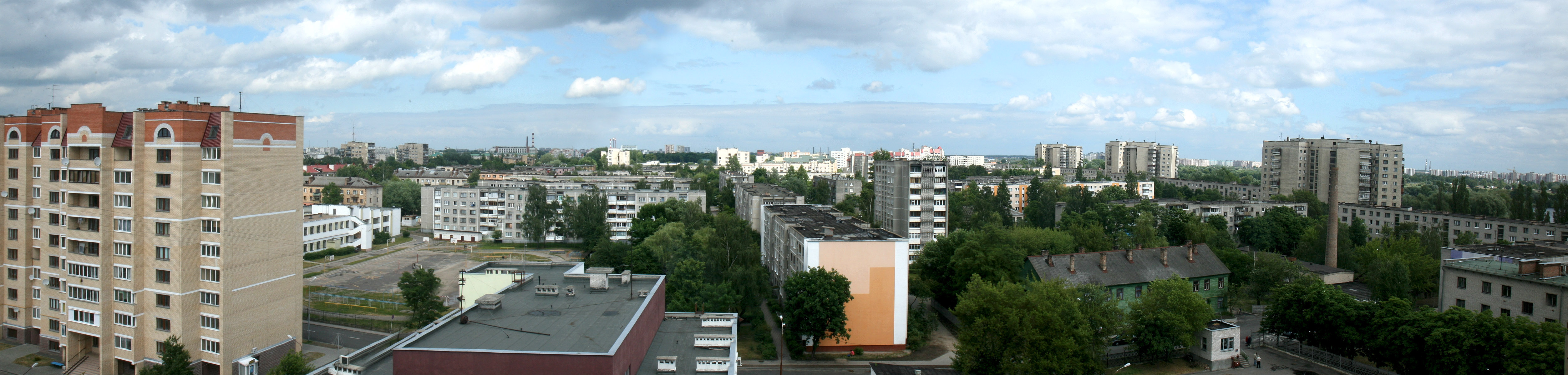 Living district in Brest, Belarus.